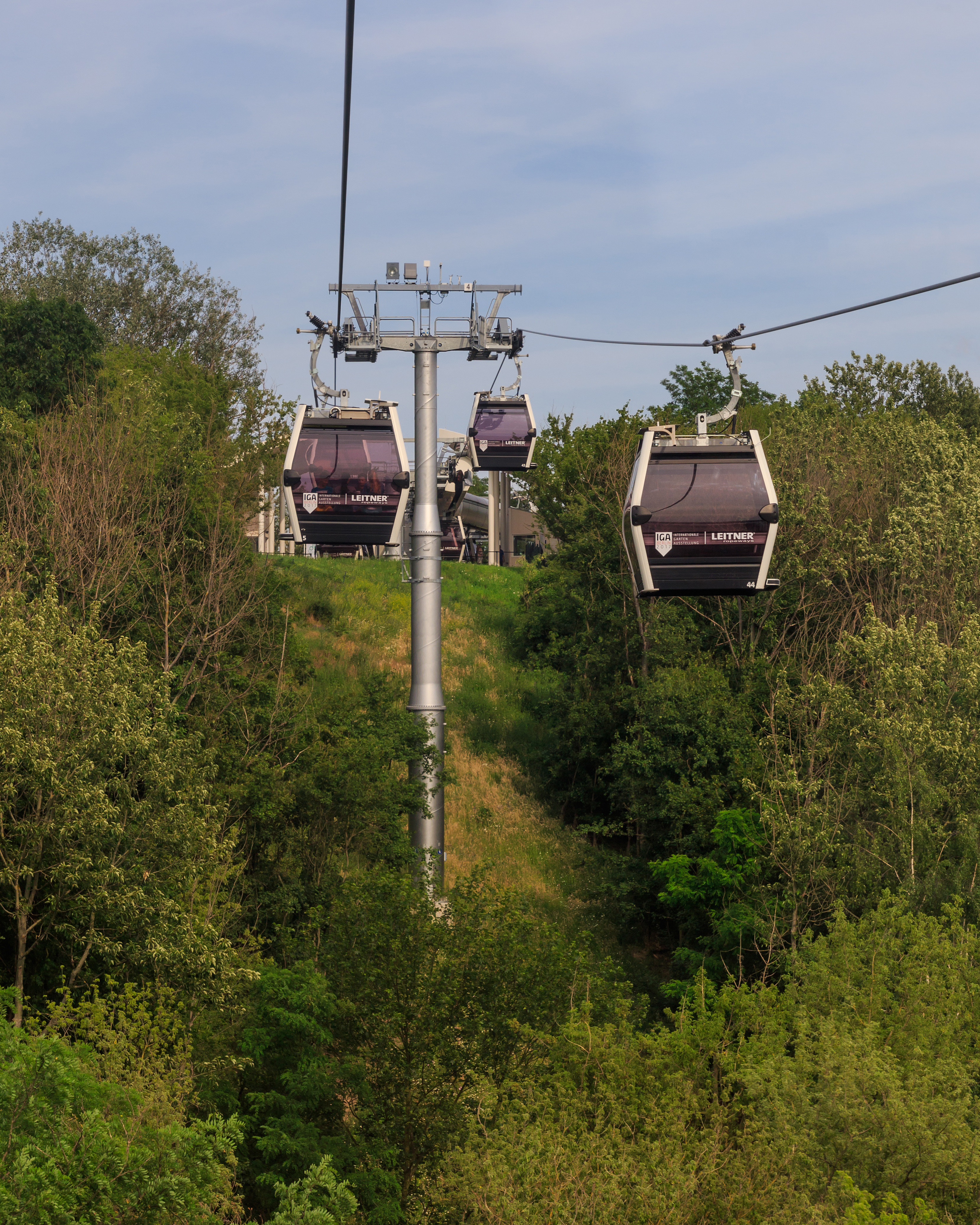 Kienberg Marzahn and surroundings (IGA 2017 area) in Berlin (Germany)